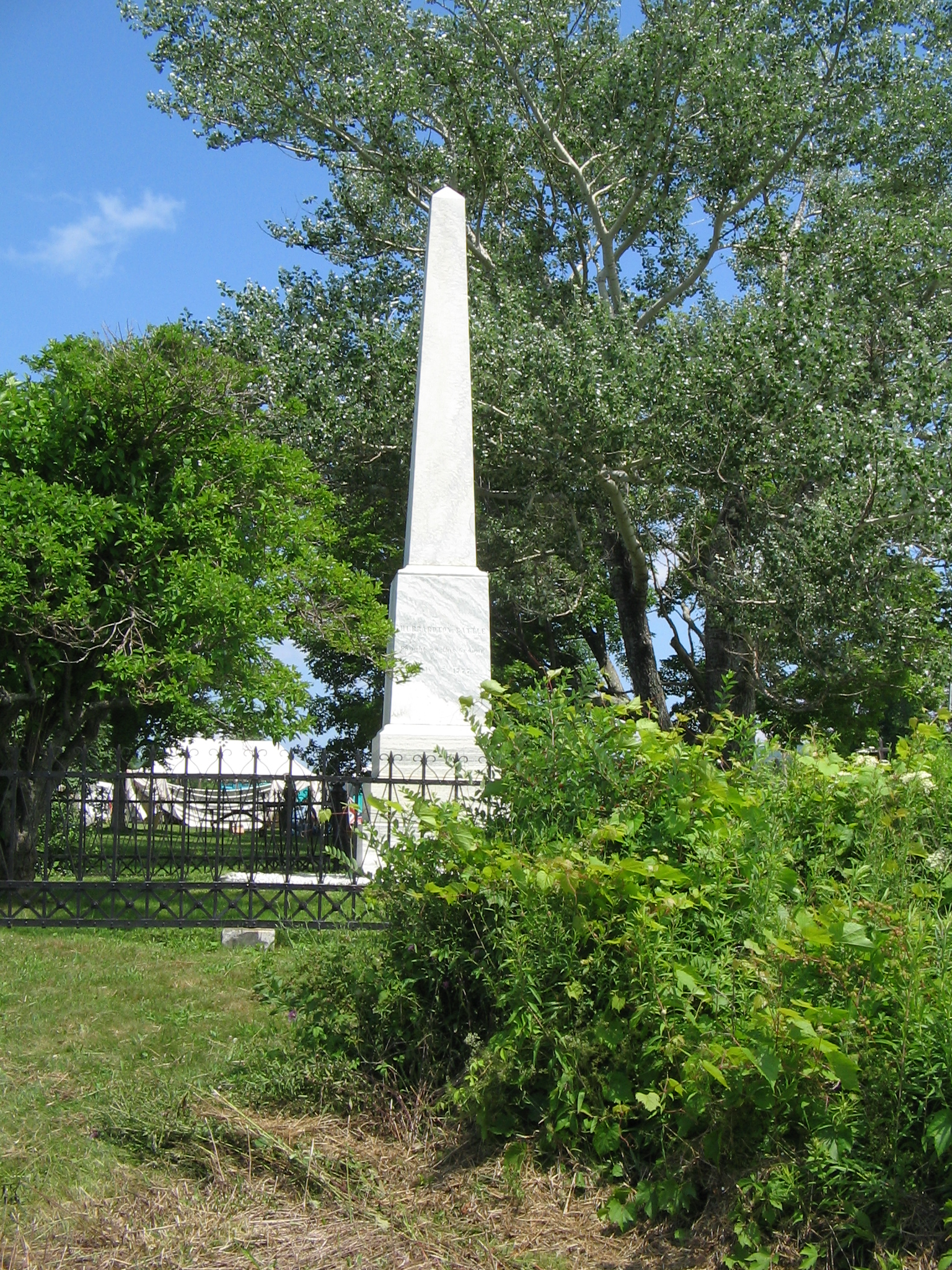 Monument at Hubbardton Battlefield, Hubbardton, Vermont, commemorating Revolutionary War battle of 7 July 1777.